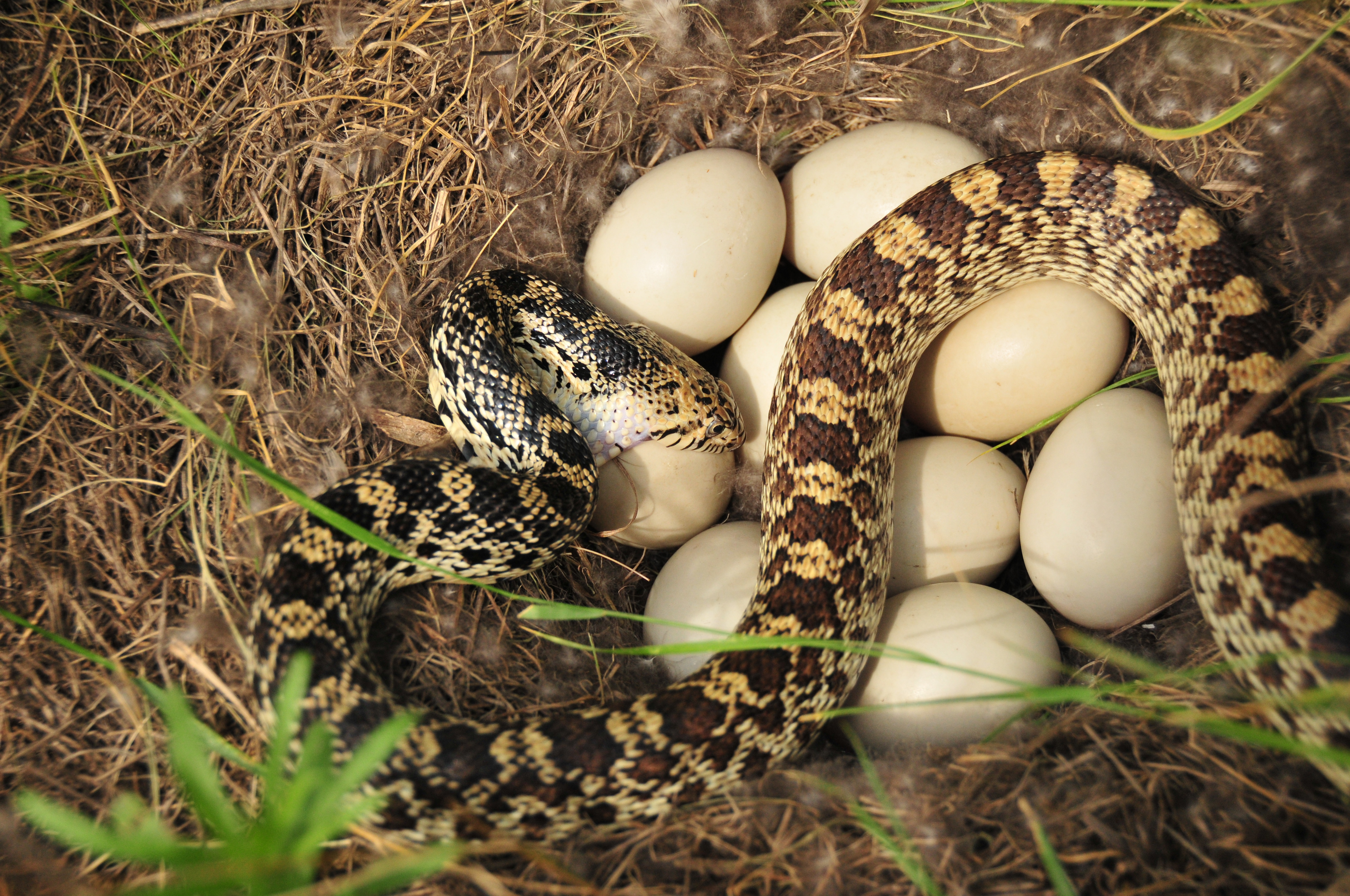 Bullsnakes can be serious predators of ground nesting birds and their eggs. This scene was discovered when the hen mallard flushed from her nest, revealing that the bullsnake was taking an egg from underneath the incubating hen. Photo Credit: Tom Koerner/USFWS